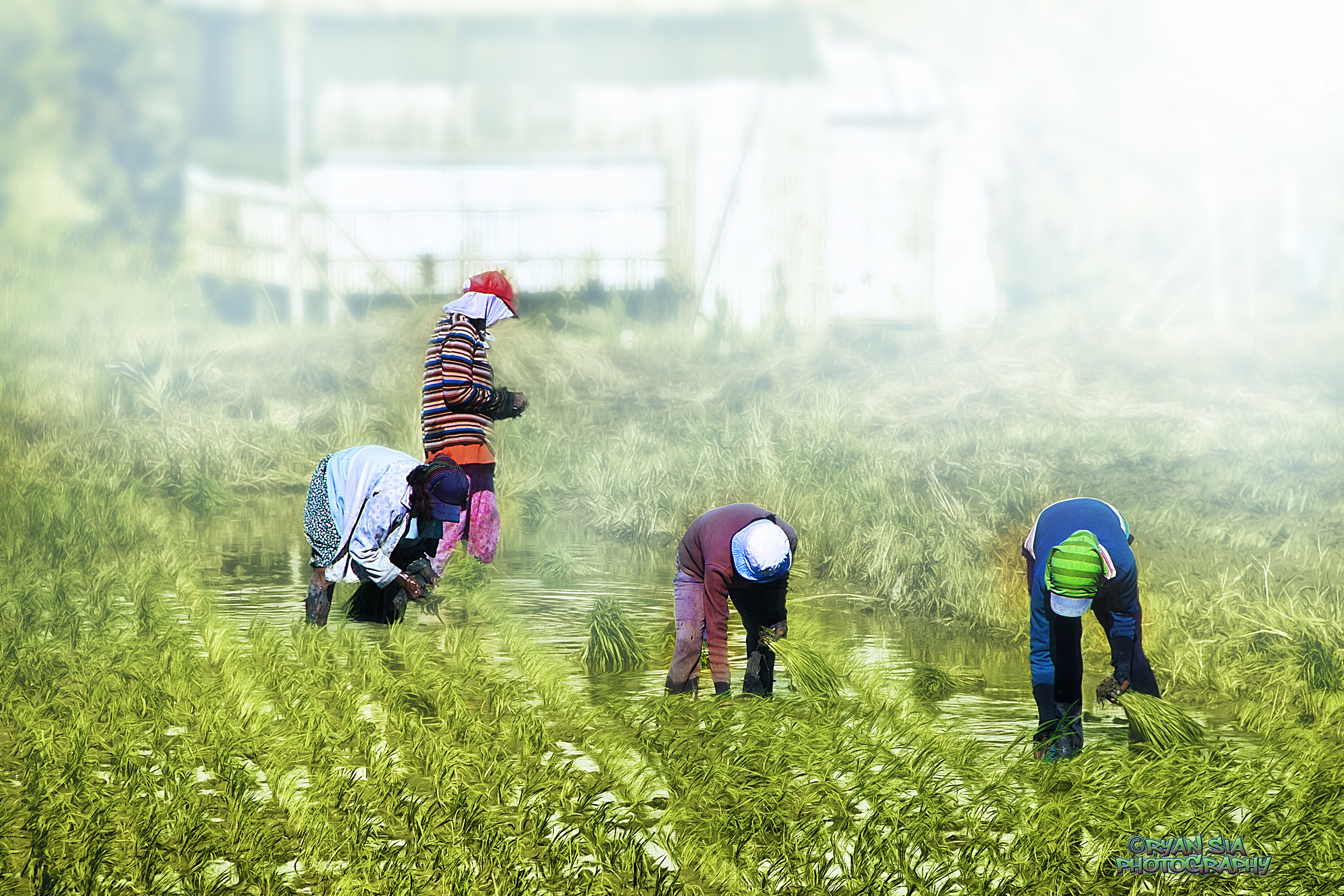 Municipality of Dumangas, Philippines. According to the 2015 census, it has a population of 69,108 people.